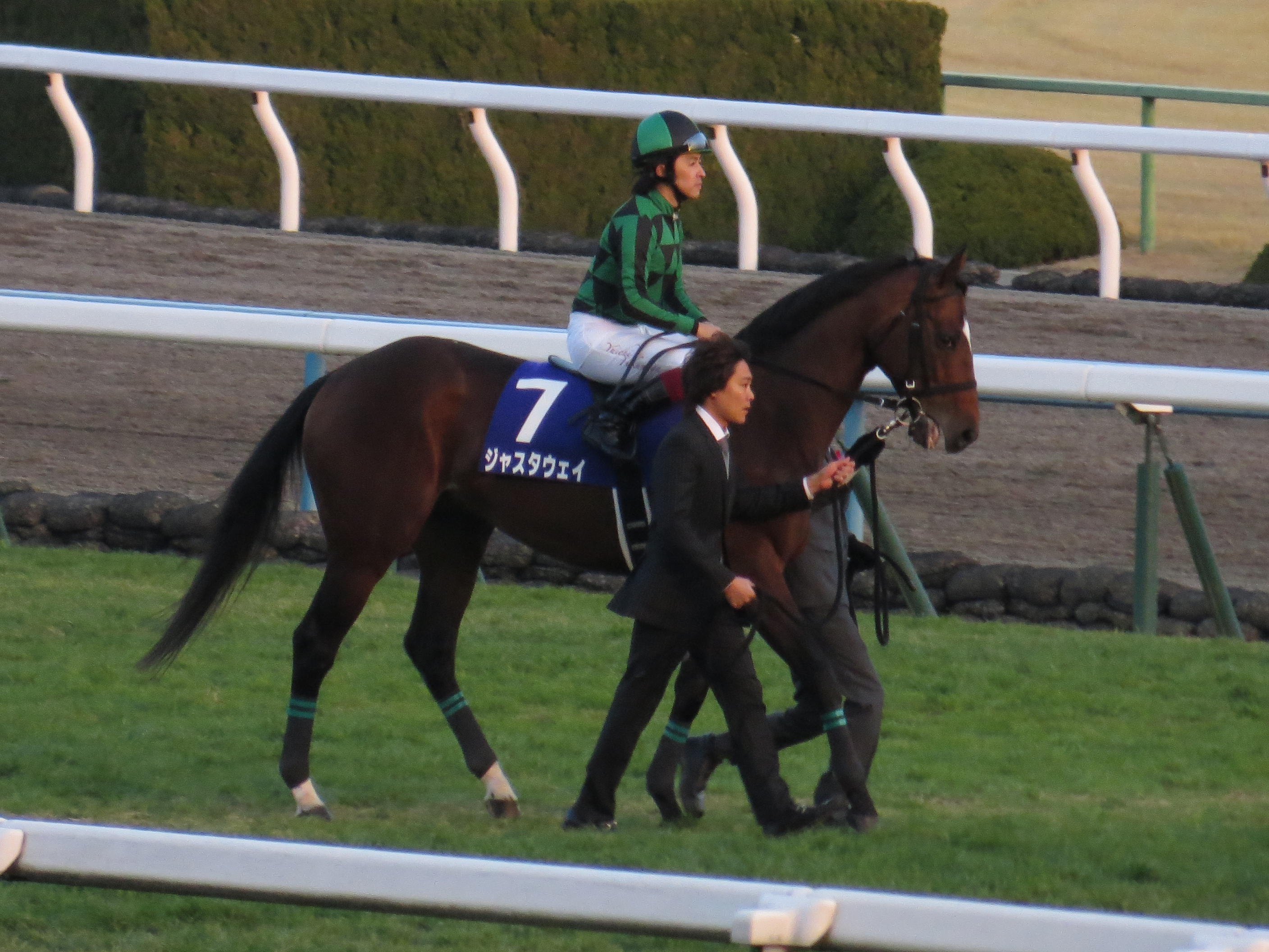 Retiremonet ceremony of Just A Way.